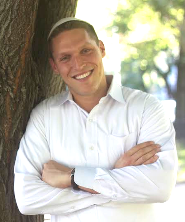 Picture of Rabbi Dr. Shmuly Yanklowitz